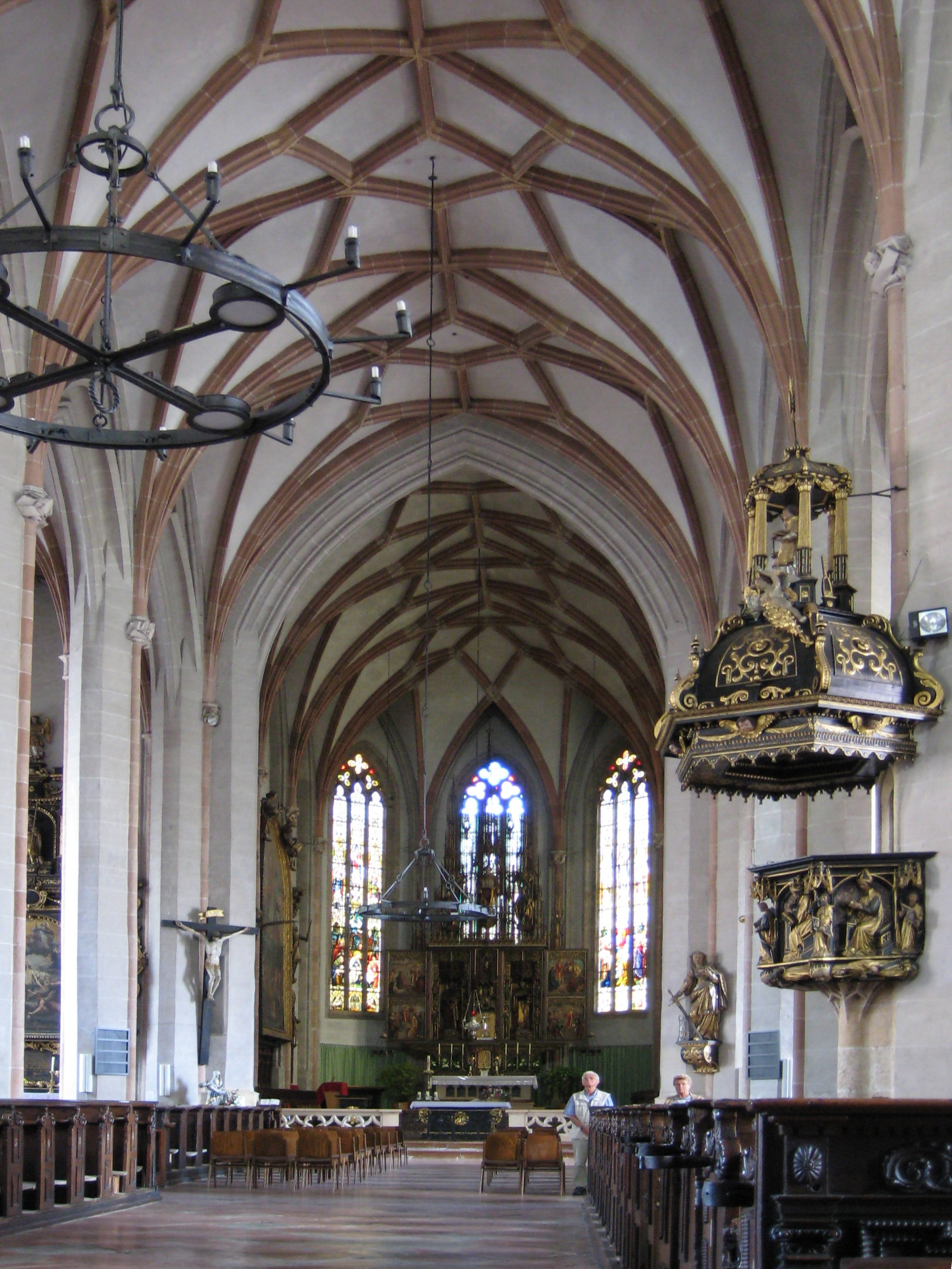 Braunau am Inn, interior view of Saint Stephen's Parish Church to east with the Baroque pulpit (1700) an the Gothic revival main altar by Georg Schreiner (1904)